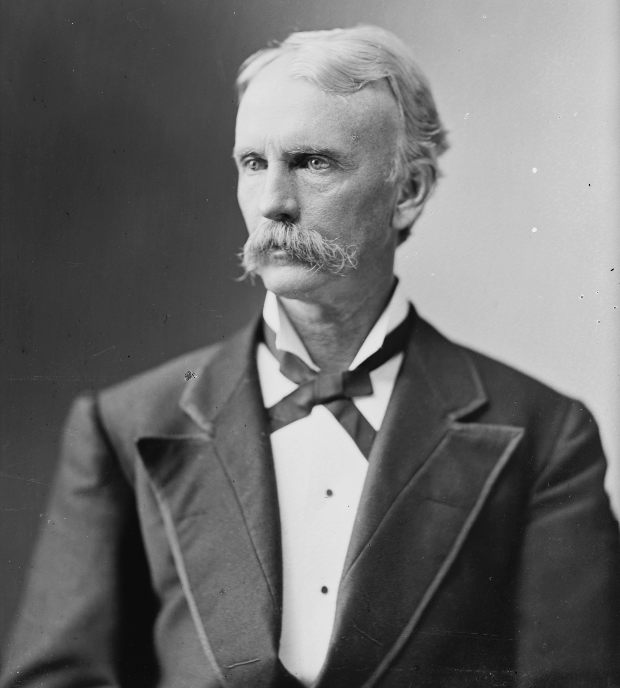 James Noble Tyner, former Postmaster-General of the United States.